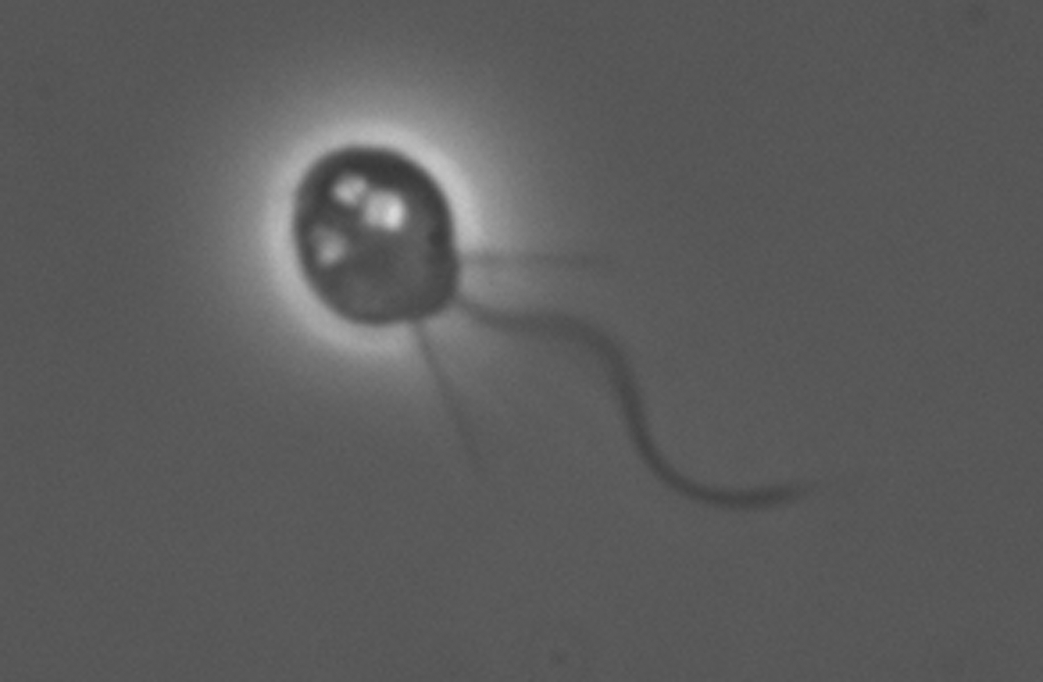 phase contrast image of Monosiga brevicollis, by Stephen Fairclough